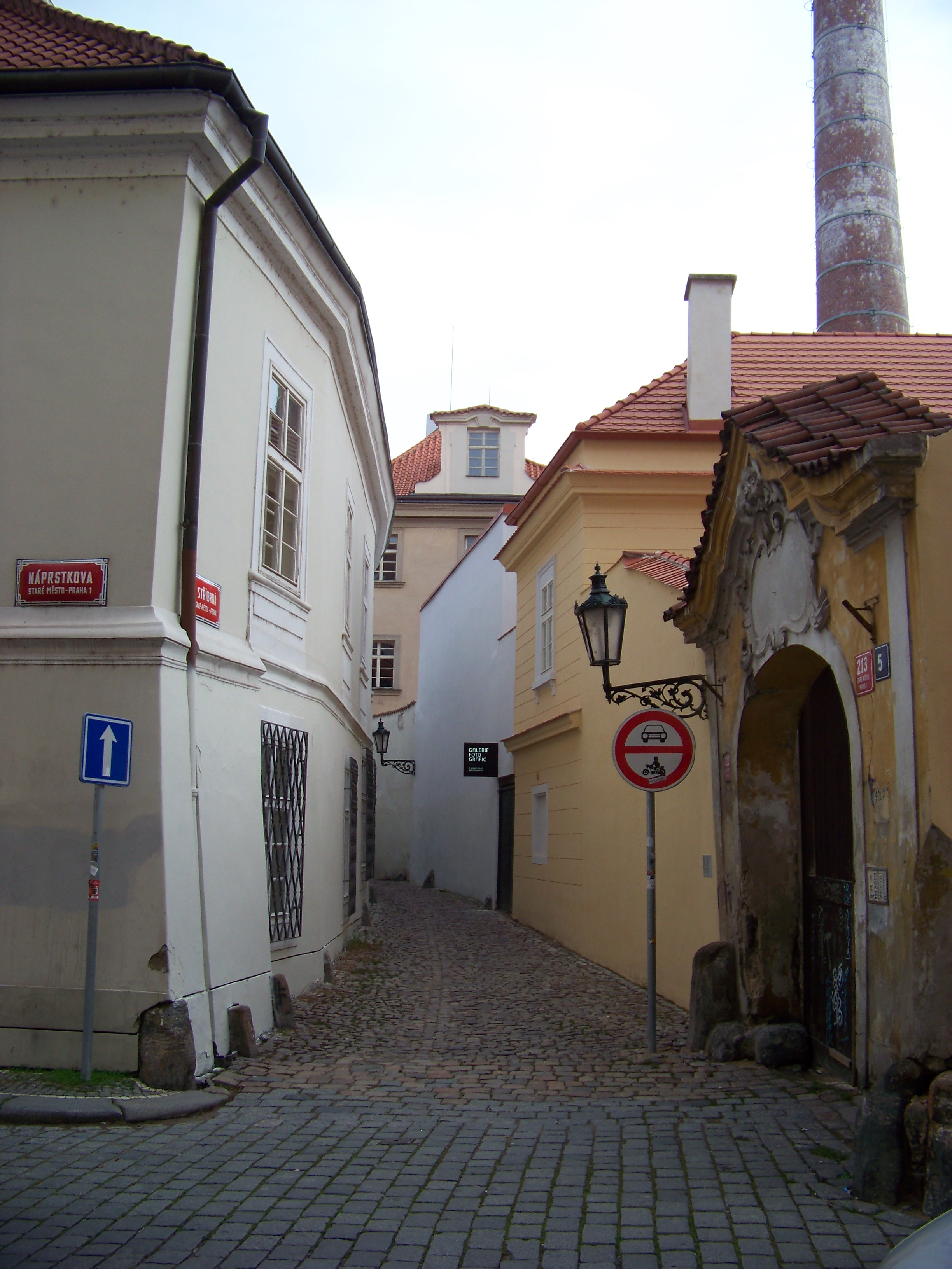 Prague-Old Town. Stříbrná 212/2, 252/1.